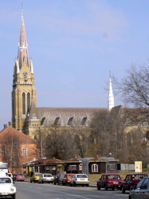 Bačka Topola/Bácstopolya, Vojvodina, Serbia - Main street and the Cathedral